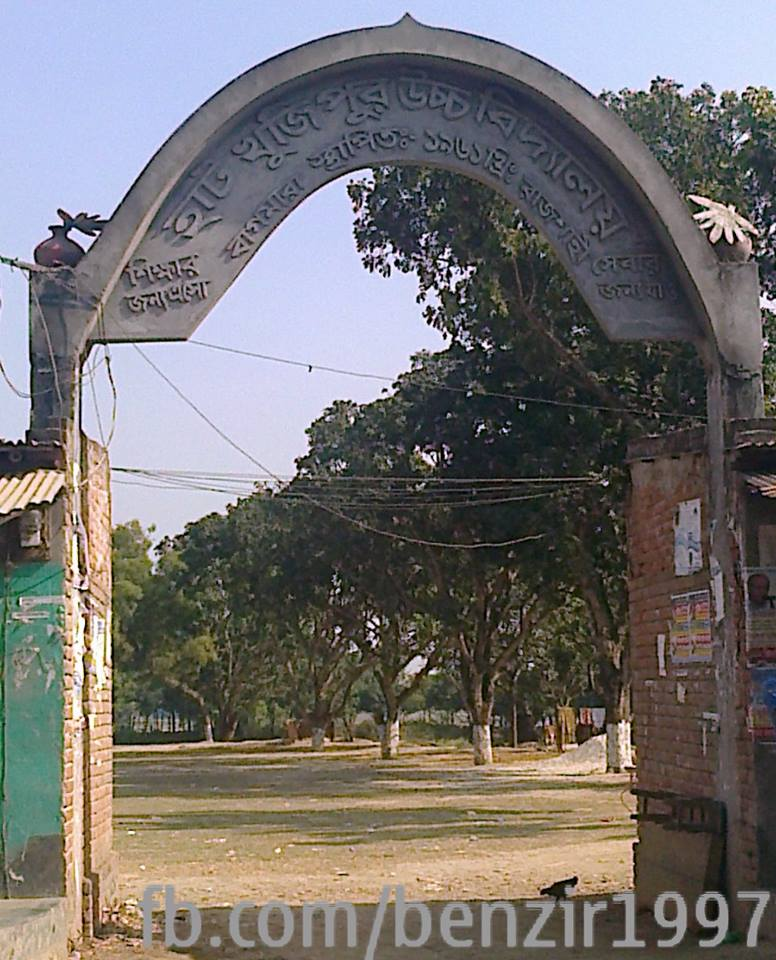 It's a photo of Hat Khujipur High School which is captured by Benzir Ahammed Shawon